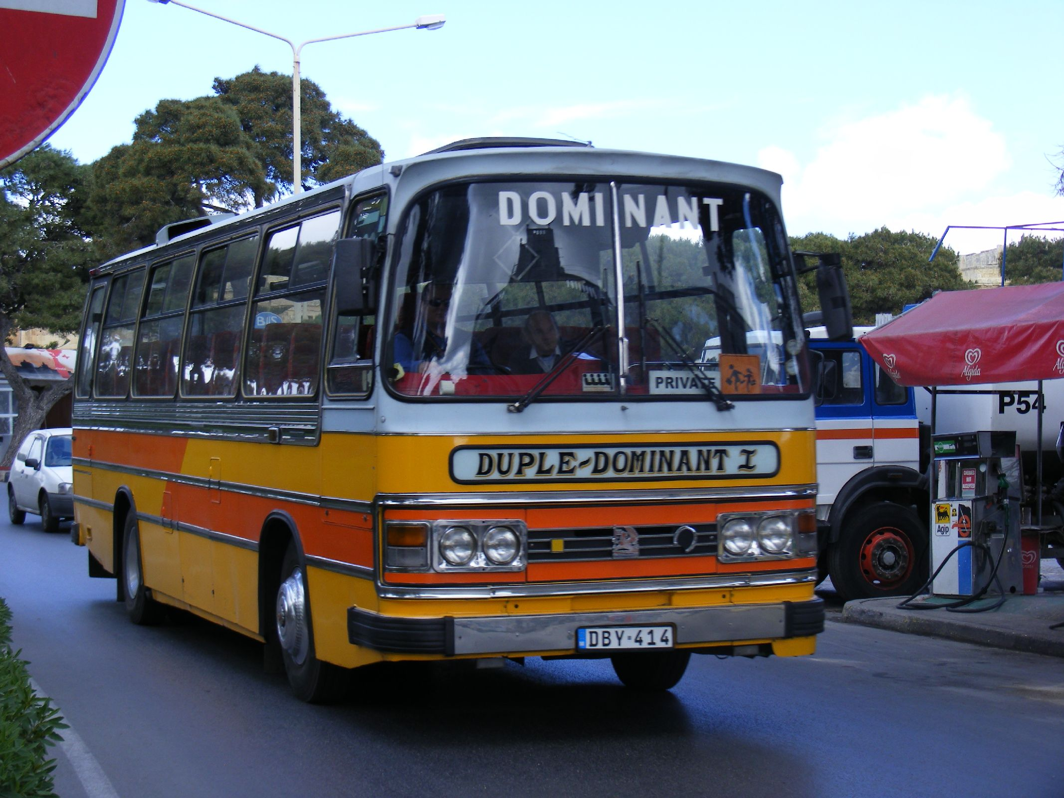 Private school contact hire.